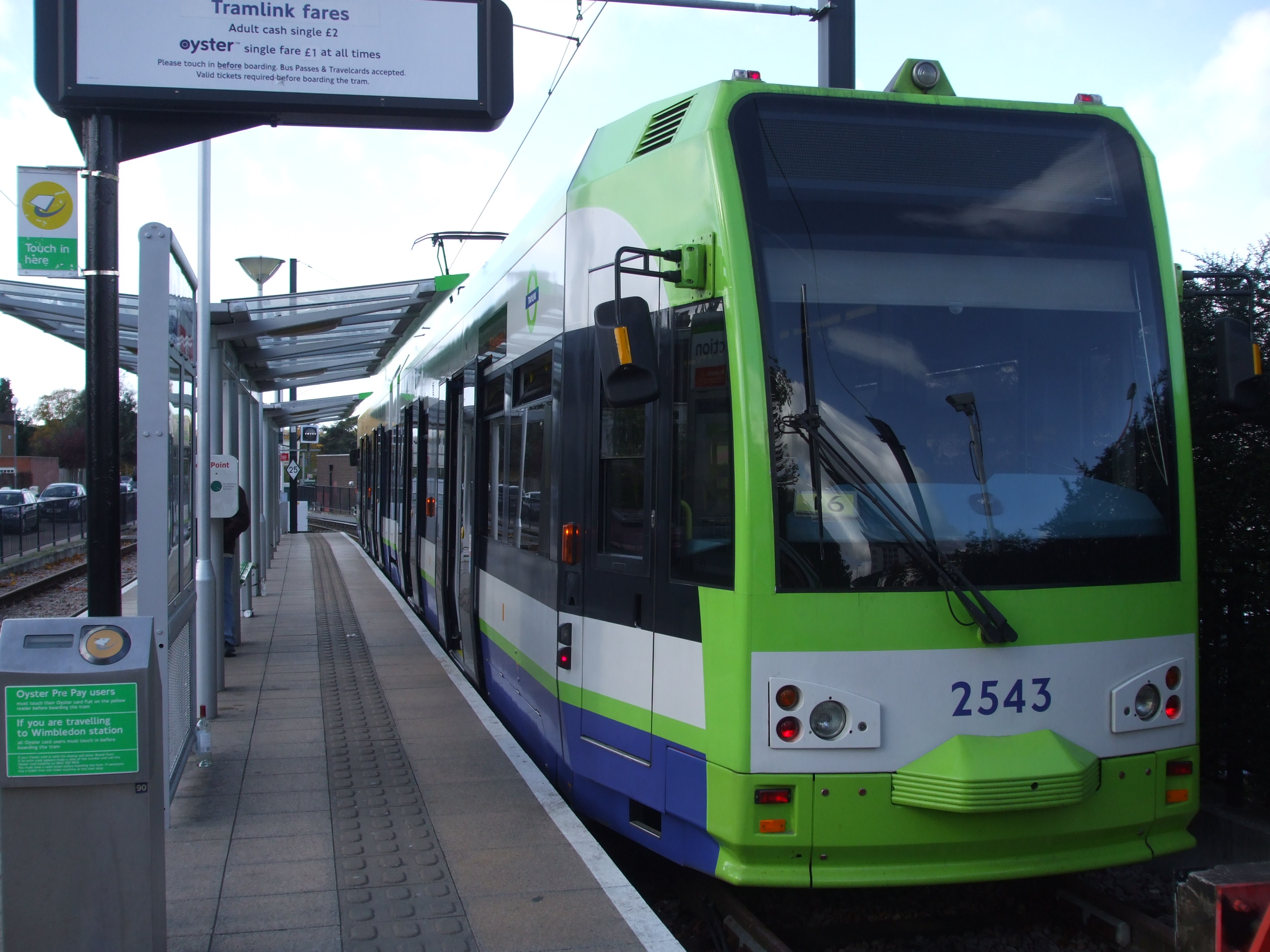 Beckenham Junction tramstop looking west, with Tram 2543 in the first livery awaiting return to Croydon